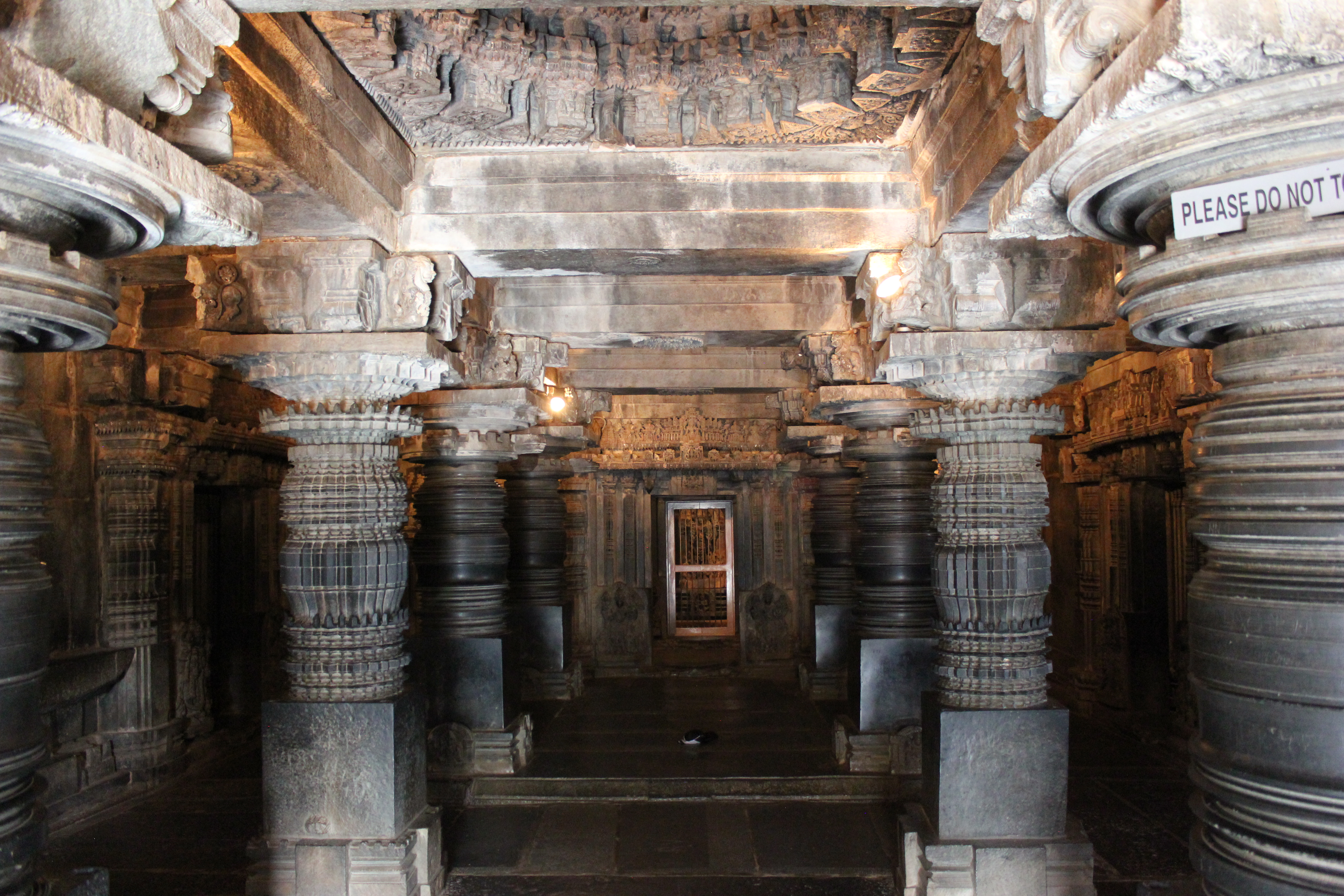 Photograph taken by self (Dinesh Kannambadi) at the Chennakeshava Temple (also called Keshava or Chennakesava) in Somanathapura, Karnataka state, India. The temple was built in 1268 C.E. under Hoysala king Narasimha III, when the Hoysala Empire was the major power in South India